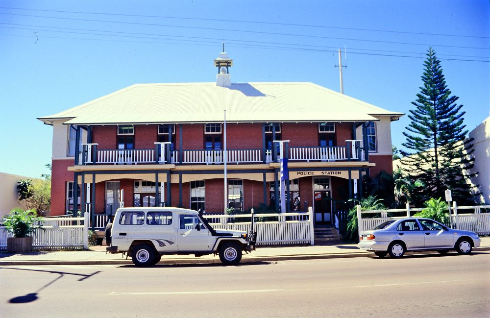 Charters Towers Police Station, Gill Street elevation (1997)